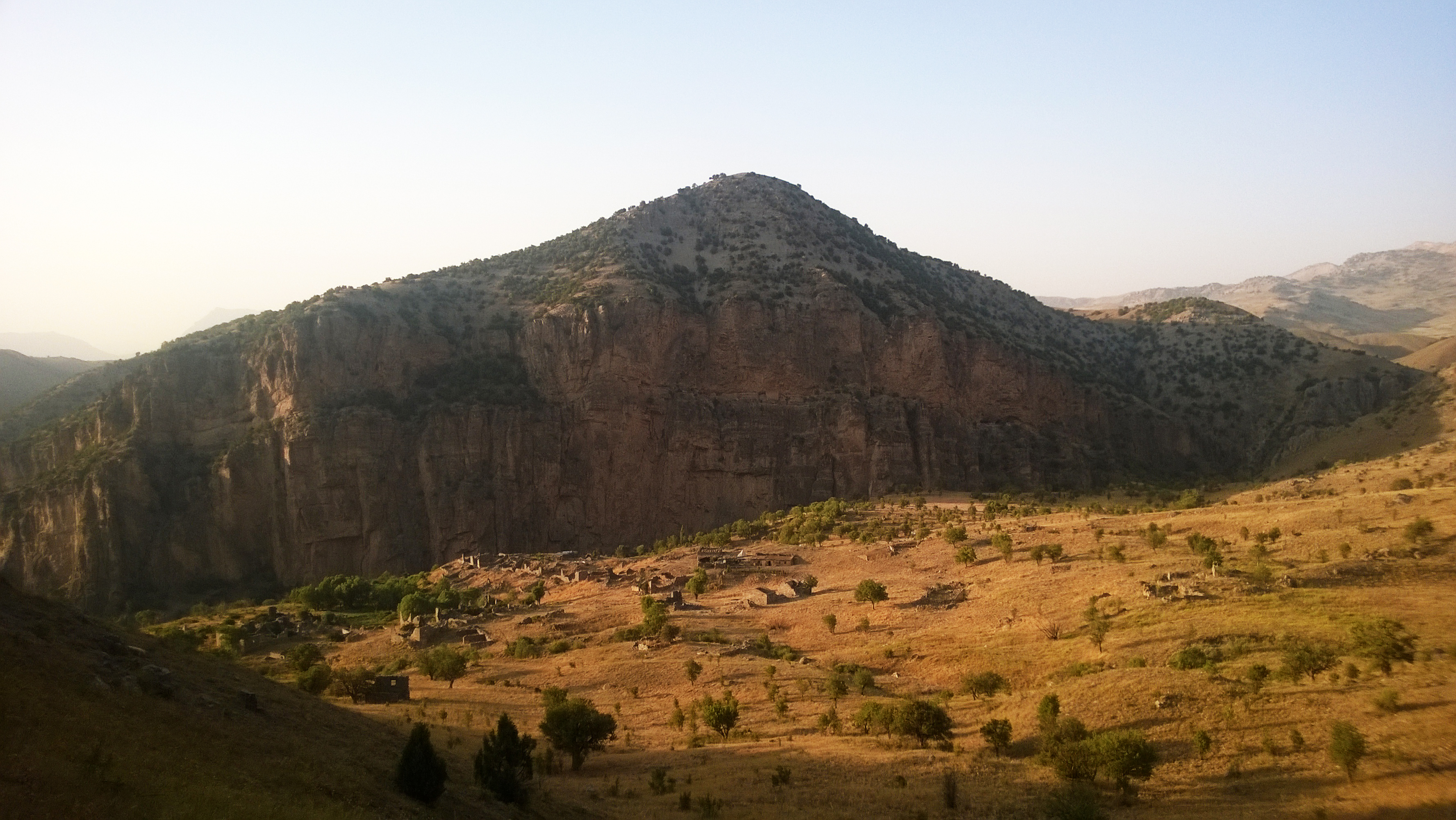 Assyrian Meer Village panoramic photograph